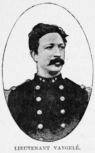 Pictures excerpted from HM Stanley's book "The Congo and the founding of its free state; a story of work and exploration (1885)"